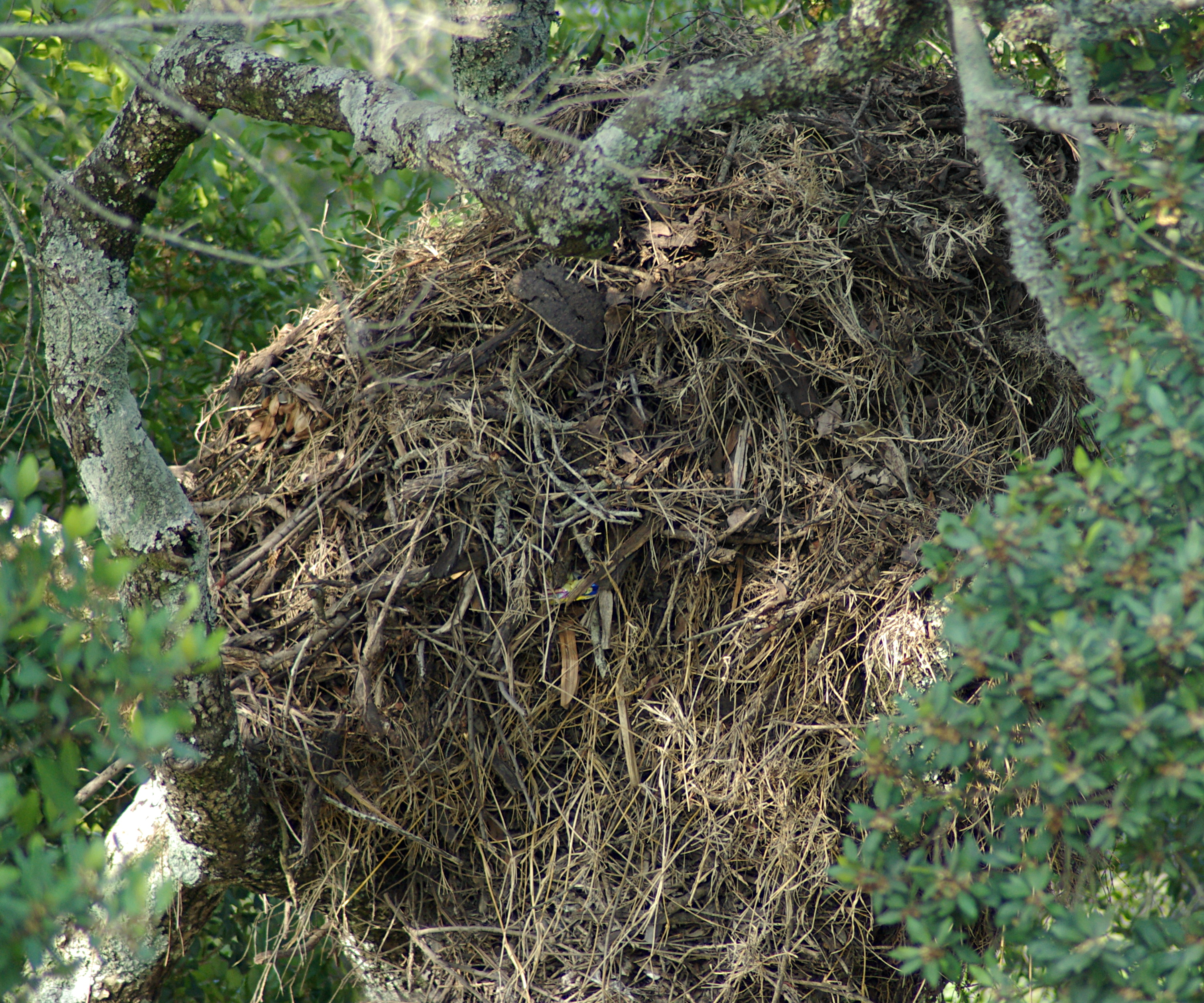 Partial view of nest of Scopus umbretta (Hammerkop, Hamerkop, Hammerhead Stork, Umbrette, etc.), Sweetwaters Game Reserve, Kenya. A little contrast and unsharp mask. I hope someone gets a better one. The time stamp is 10 hours too early.